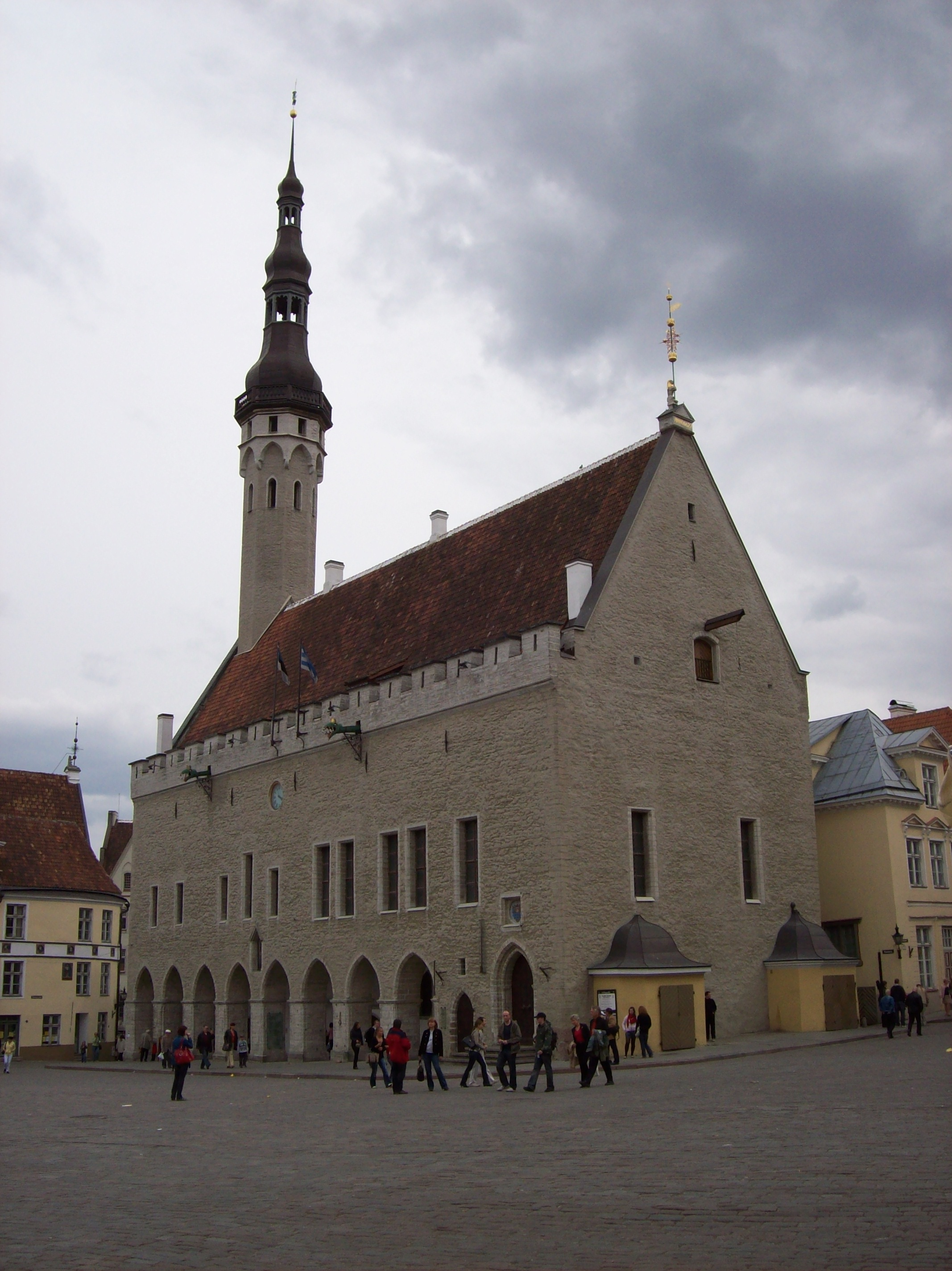 The Tallinn Town Hall